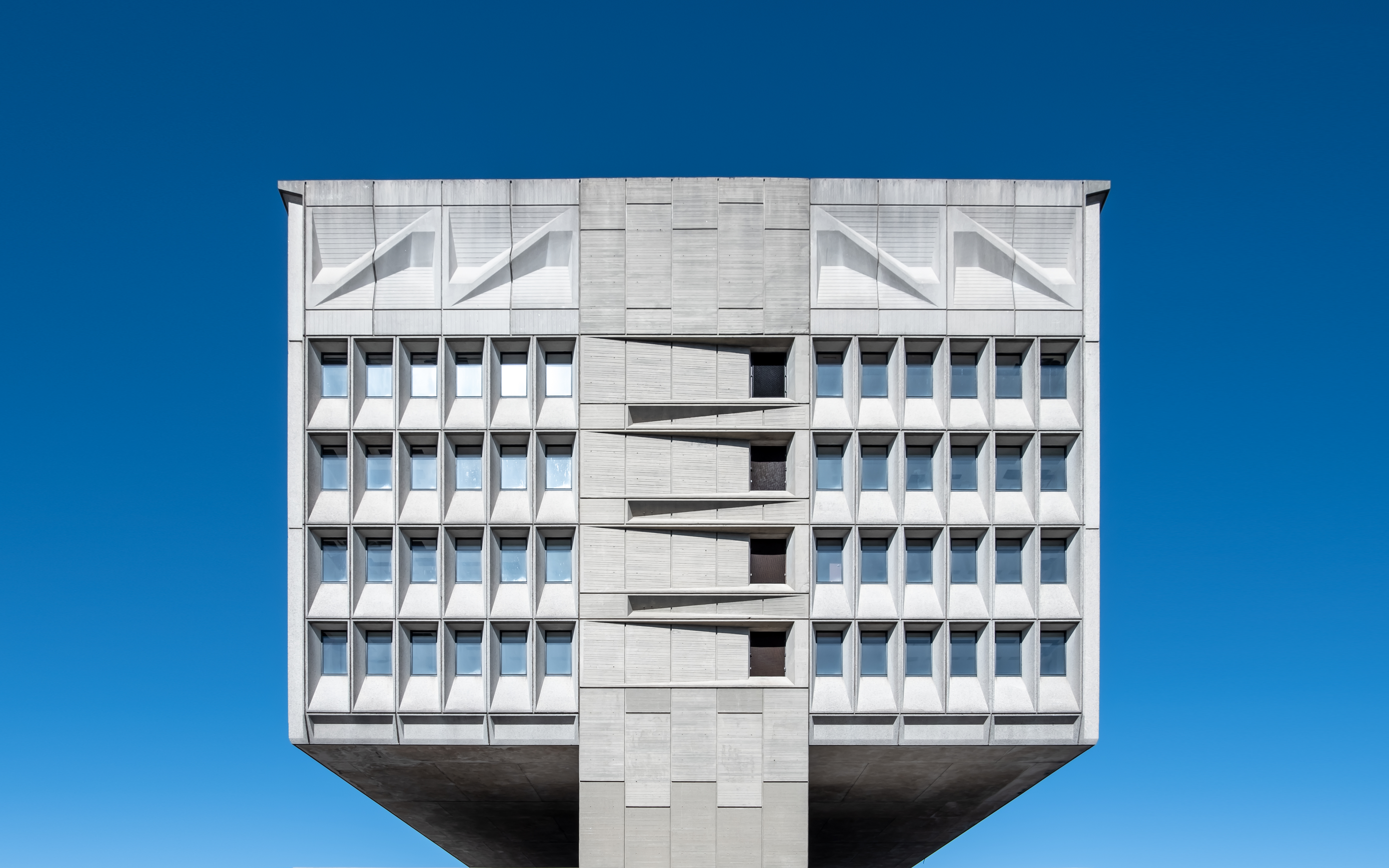 Side view of Pirelli Tire Building in New Haven, Connecticut, USA designed by Marcel Breuer